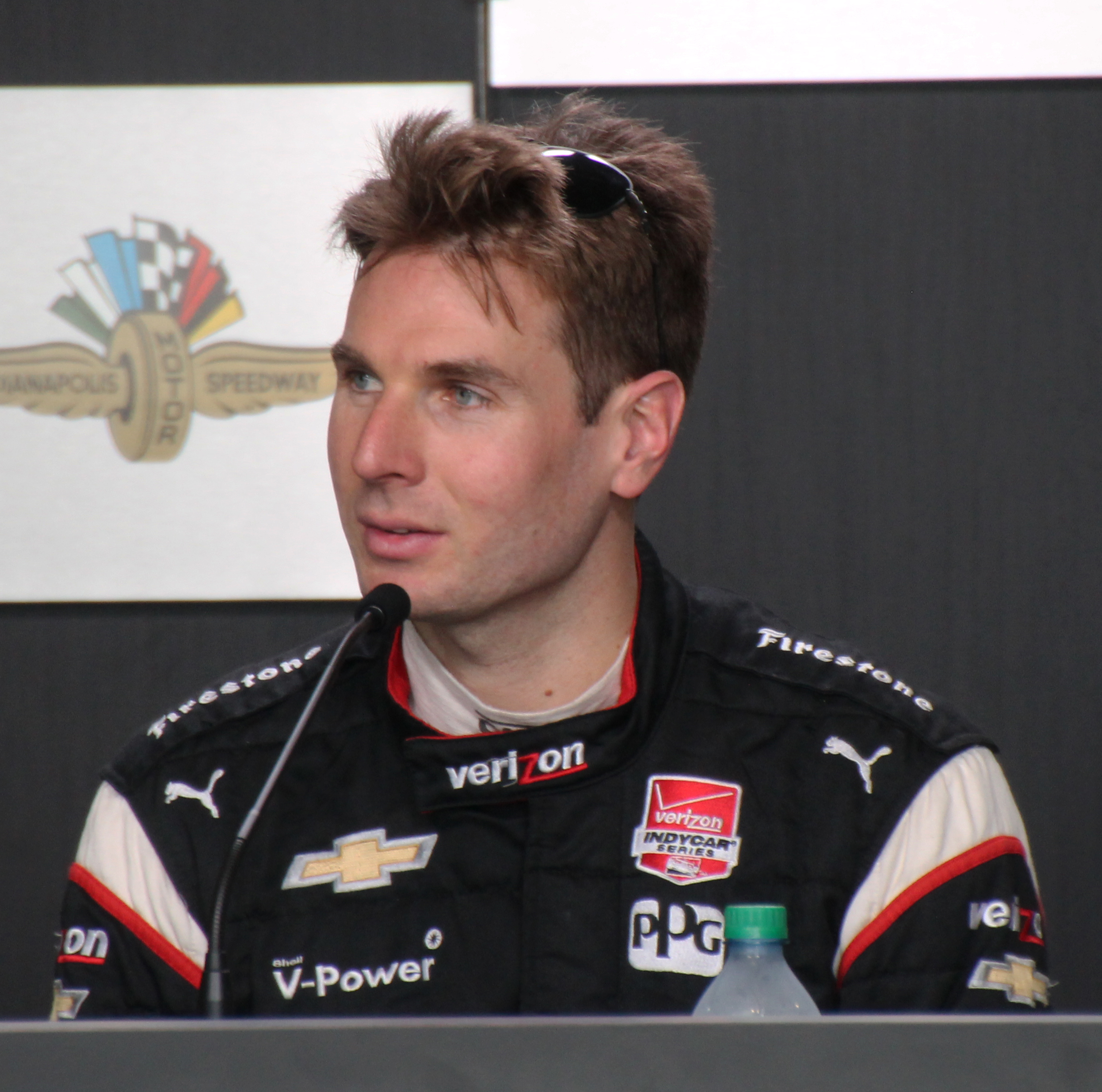 Will Power in a press conference at Carb Day 2015 at the Indianapolis Motor Speedway